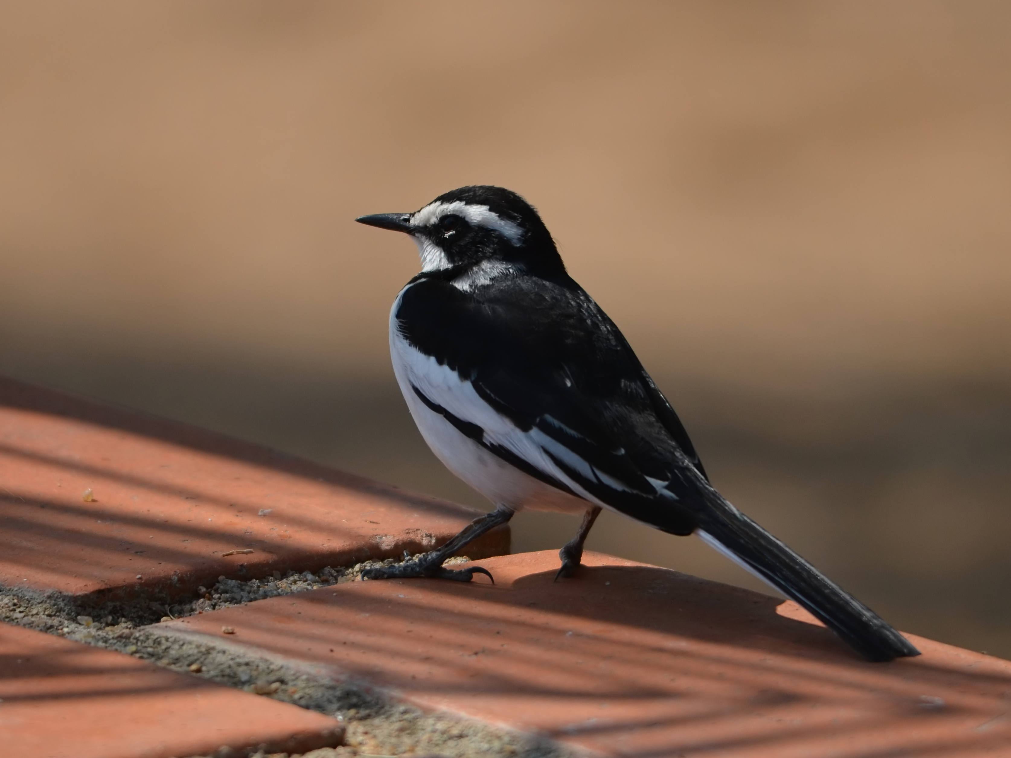 African Pied Wagtail at Lake Malawi, Malawi